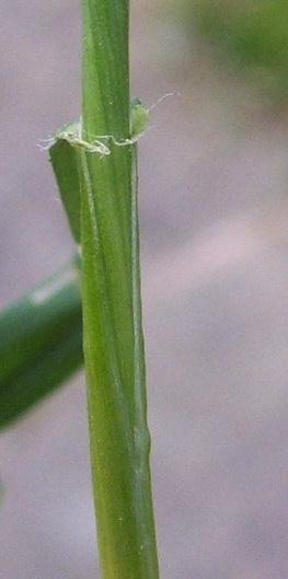 Lolium perenne also known as perennial ryegrass auricles